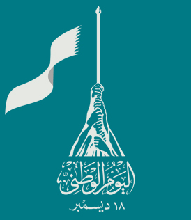 The Qatari National Day Logo